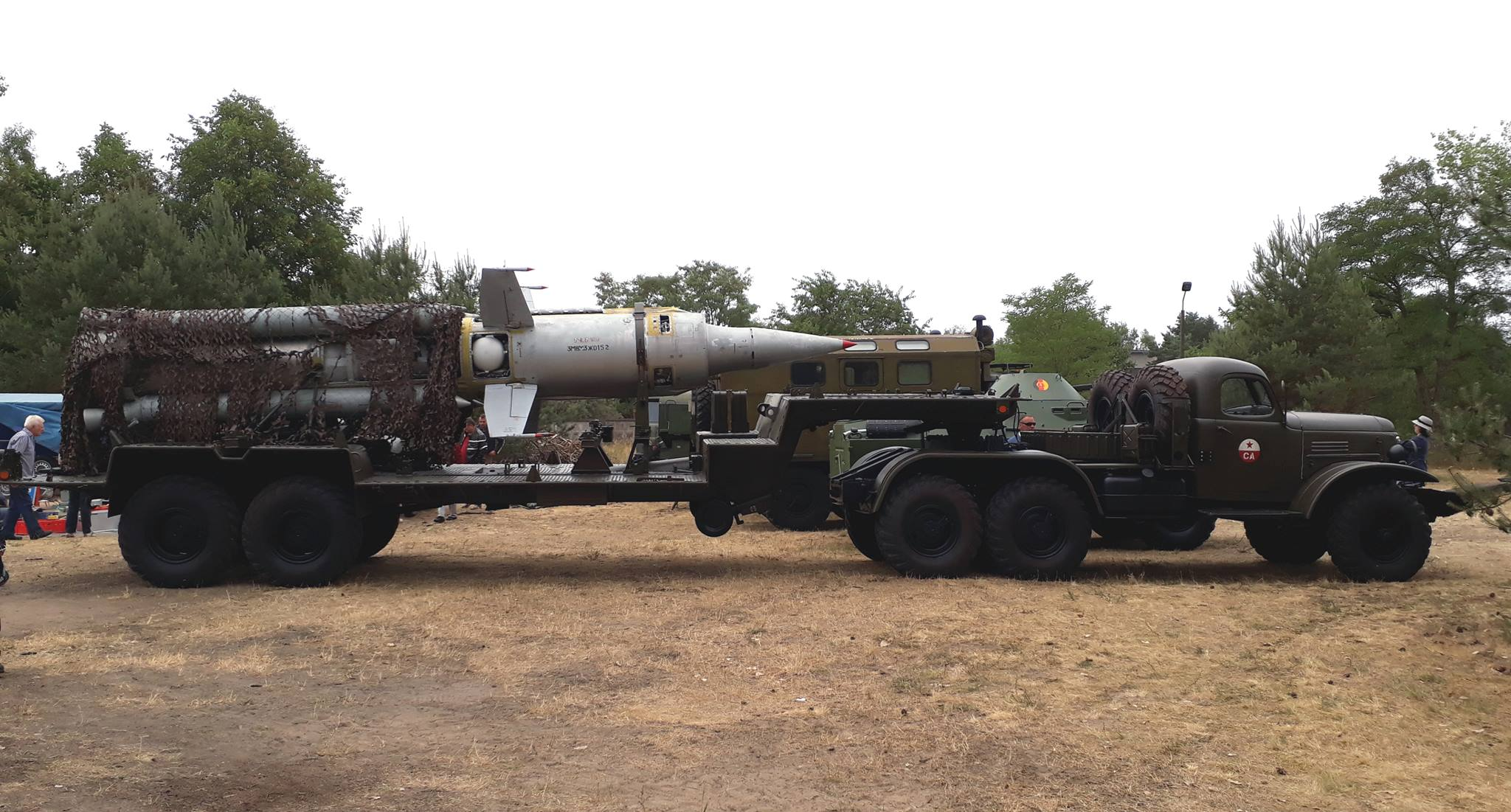 Soviet ZIL-131V tractor unit with 2K11 Krug surface-to-air missile at "20th Oldtimertreffen für Land- und Militärfahrzeuge" from 13 to 15 July 2018, Perleberg airfield, Germany.